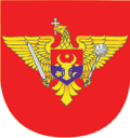 a golden eagle on a gules shield